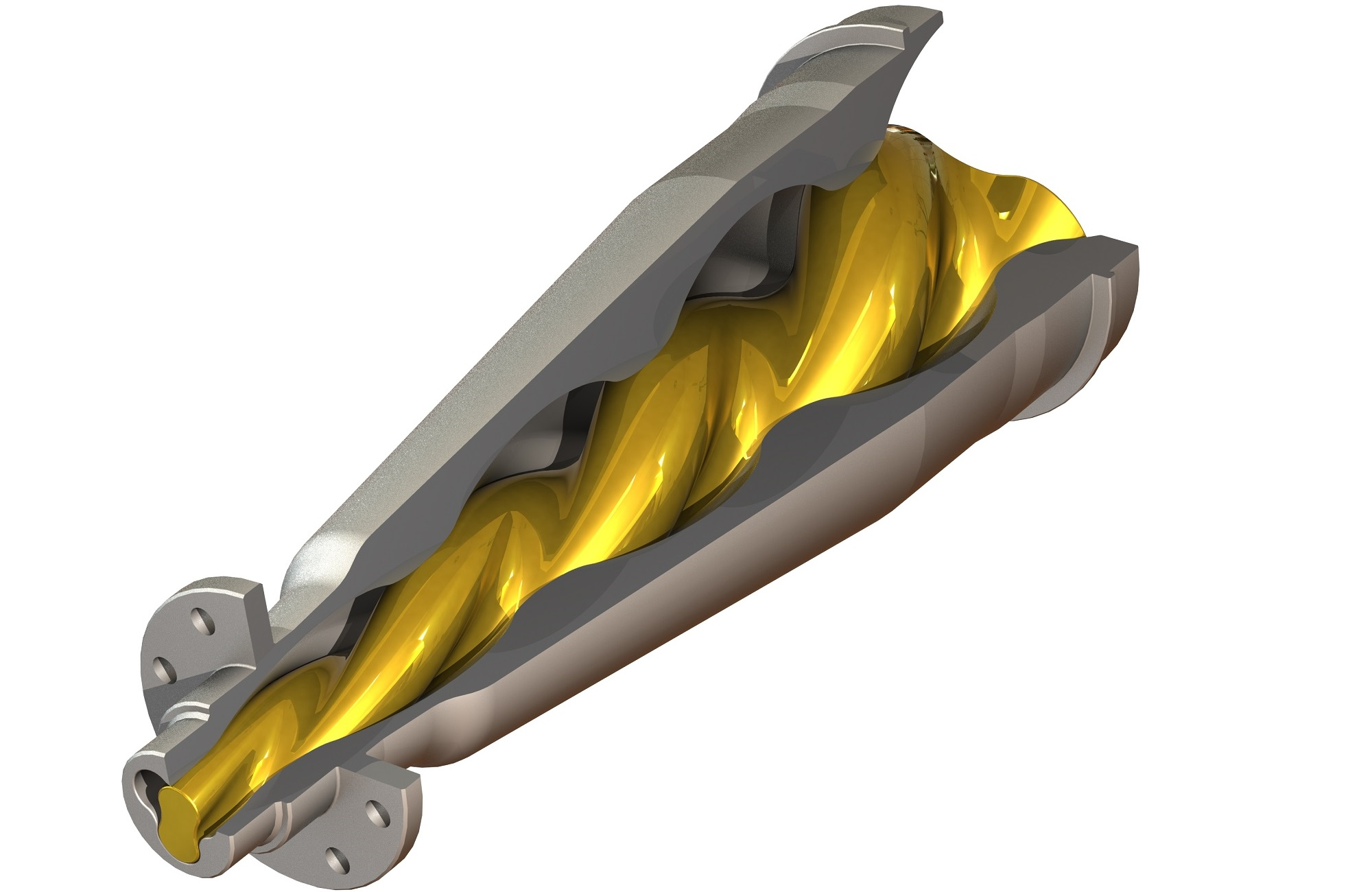 Cutaway CAD drawing of conical screw compressor